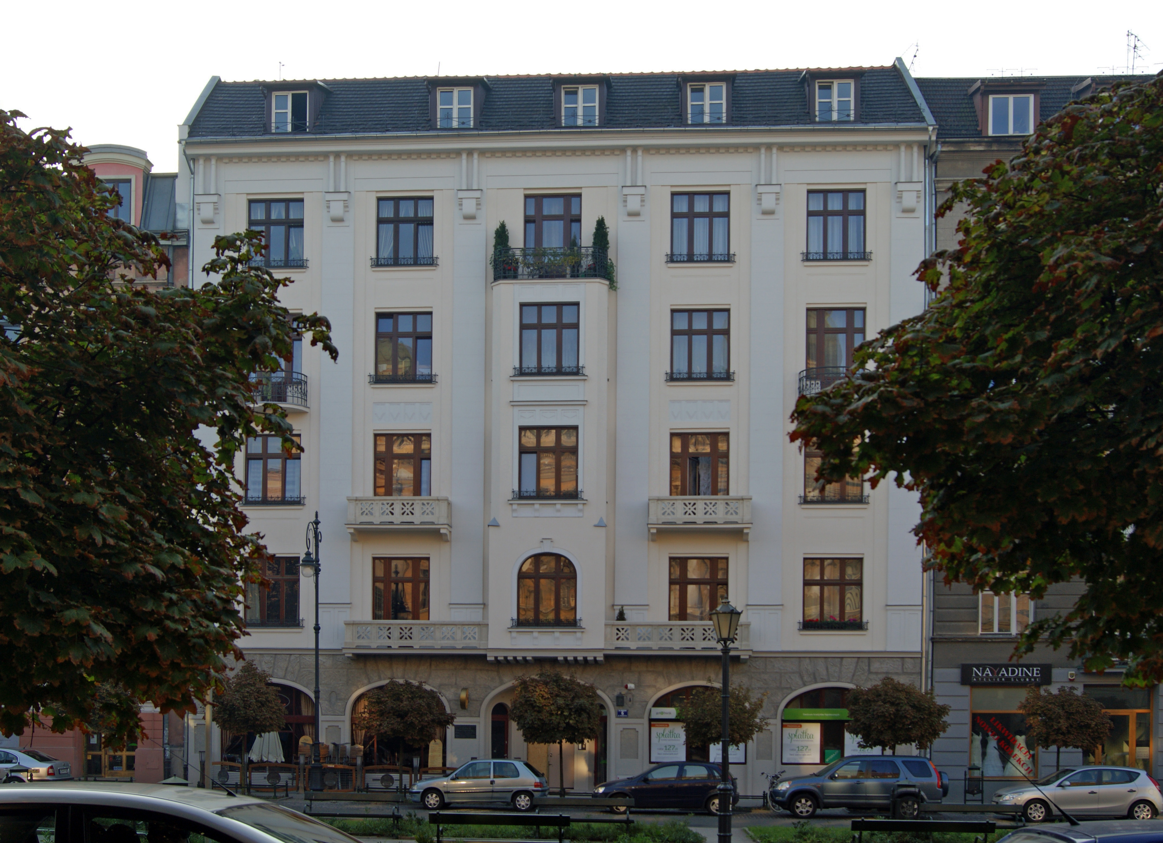 Tenement, 6 Matejko square, Krakow, Poland